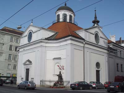 polish church in Vienna